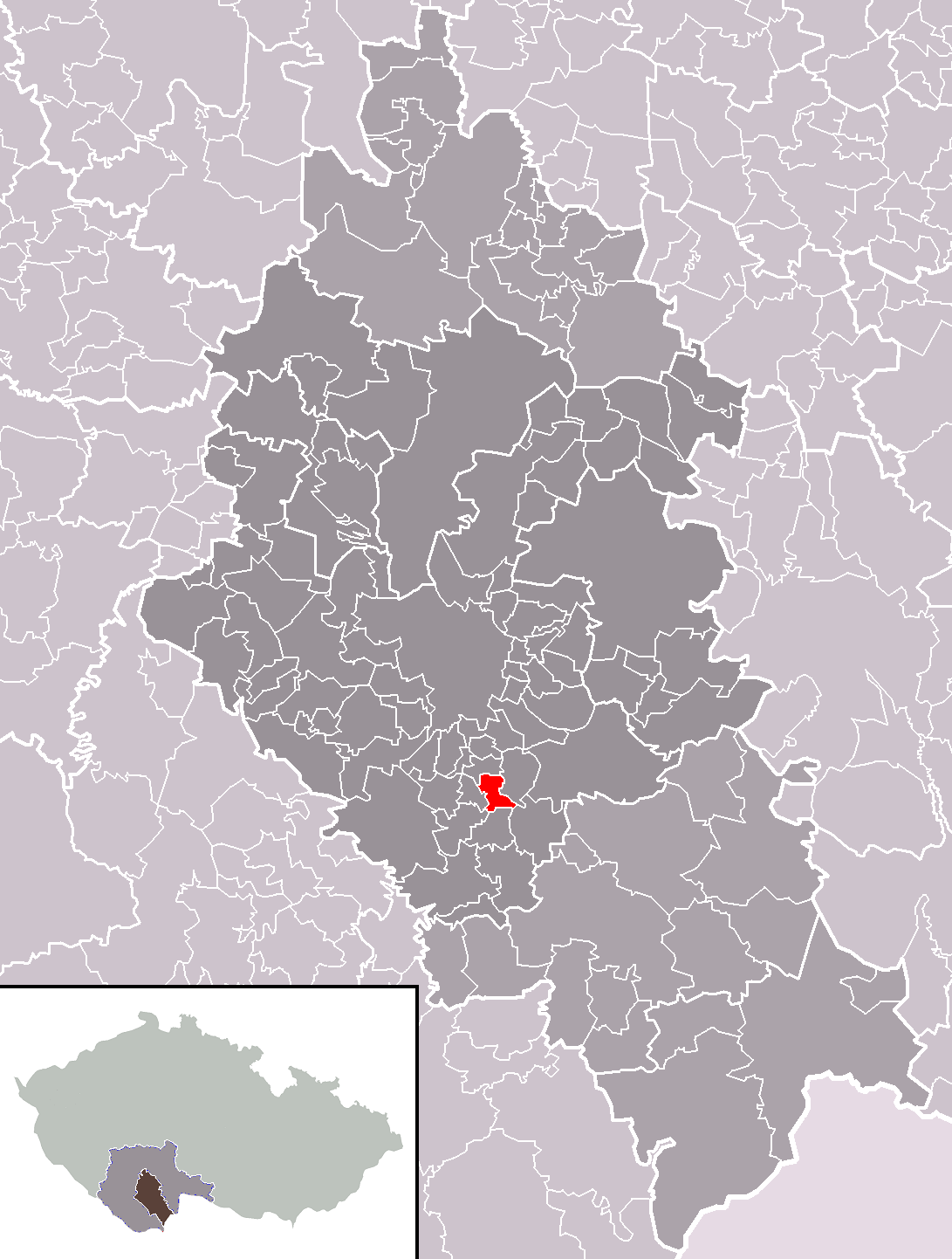 Location of Borovnice municipality within České Budějovice District and administrative area of České Budějovice as a Municipality with Extended Competence.